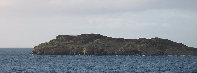 Bottle Island Southern shore, seen from the ferry to Lewis.